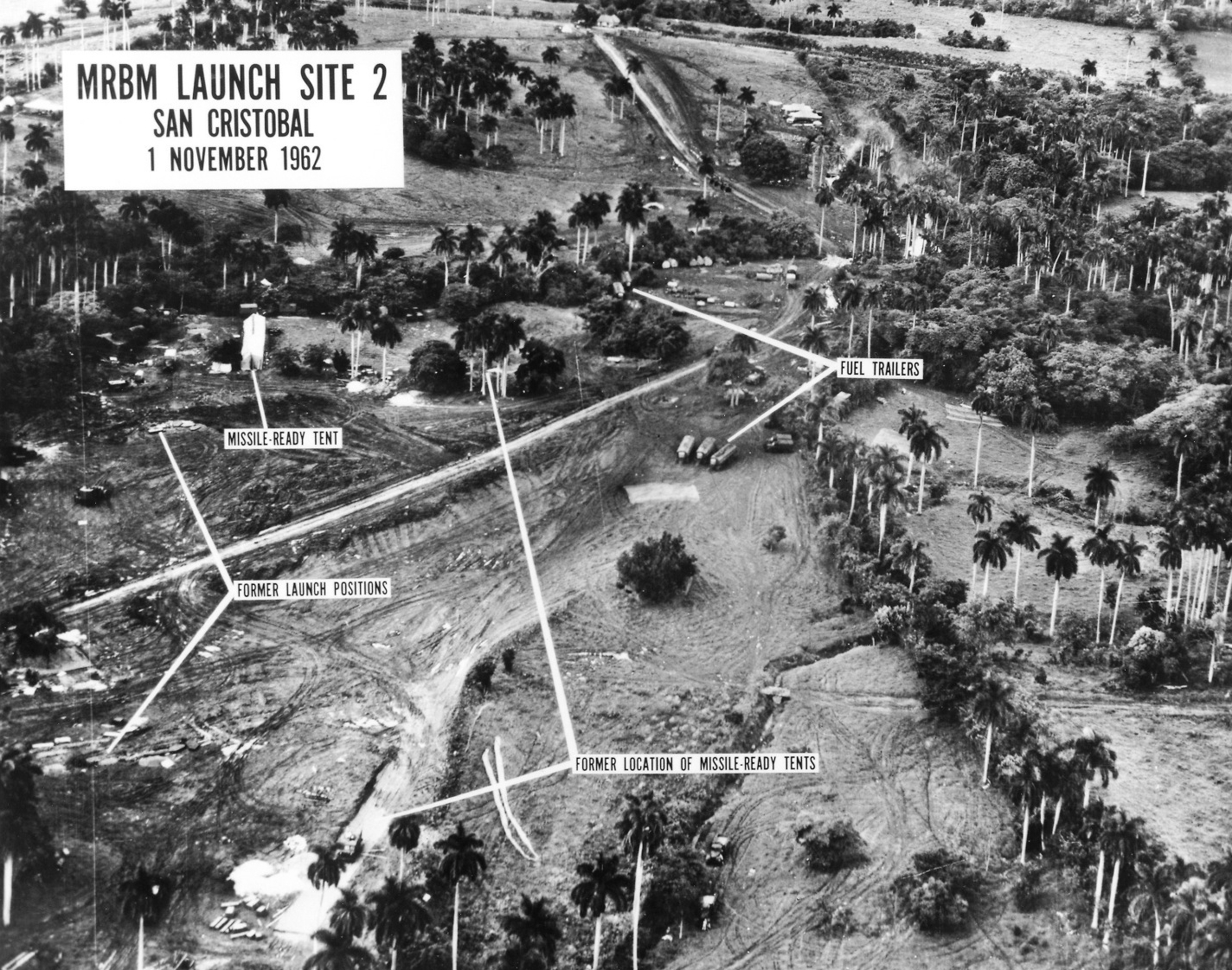 U.S. reconnaissance photograph of soviet missile sites on Cuba, taken from a Lockheed U-2 spy plane following the Cuban missile crisis. Doubtful this is a photo by a U-2. It is low angle, not high altitude. Probably by an F-101.